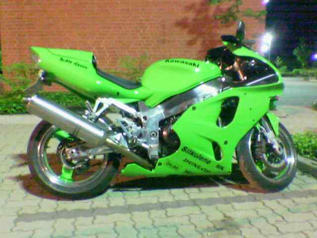 ZX-7R cleaned & pimped